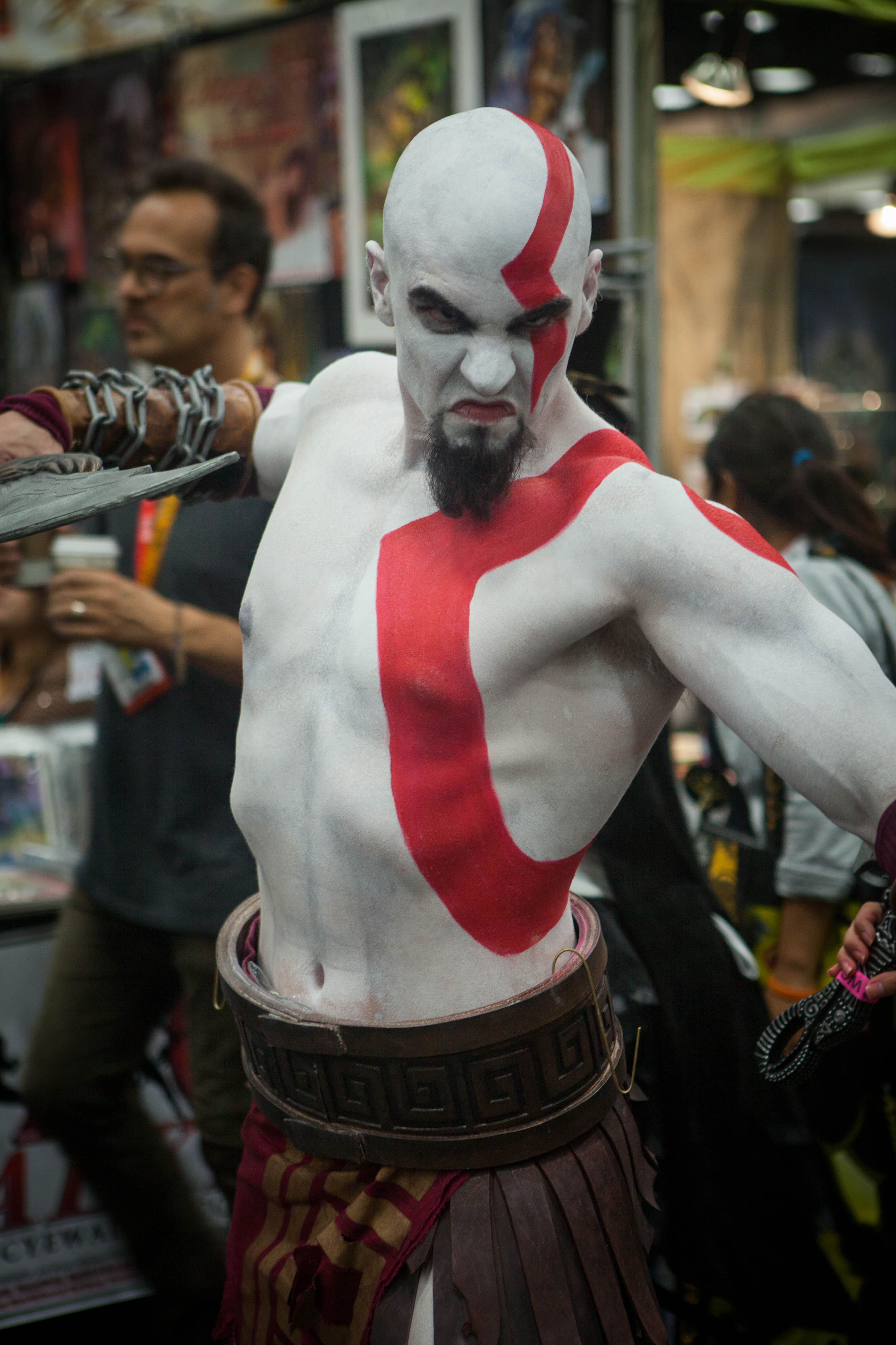 Kratos (God of War) cosplayer